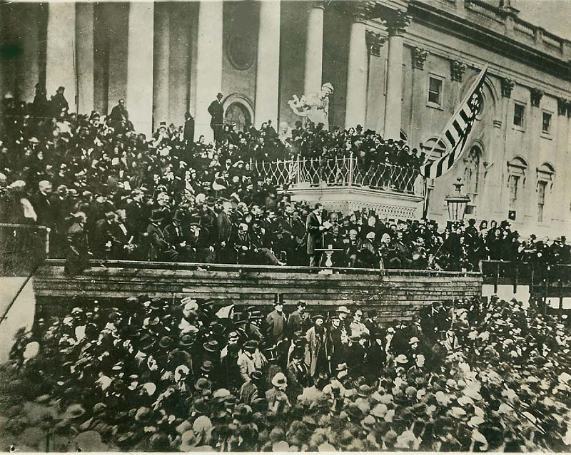 "President Abraham Lincoln during his second inauguration speech on March 4, 1865. In the crowd ... in the balcony behind Lincoln and to his left, was [Lincoln's eventual assassin] John Wilkes Booth."